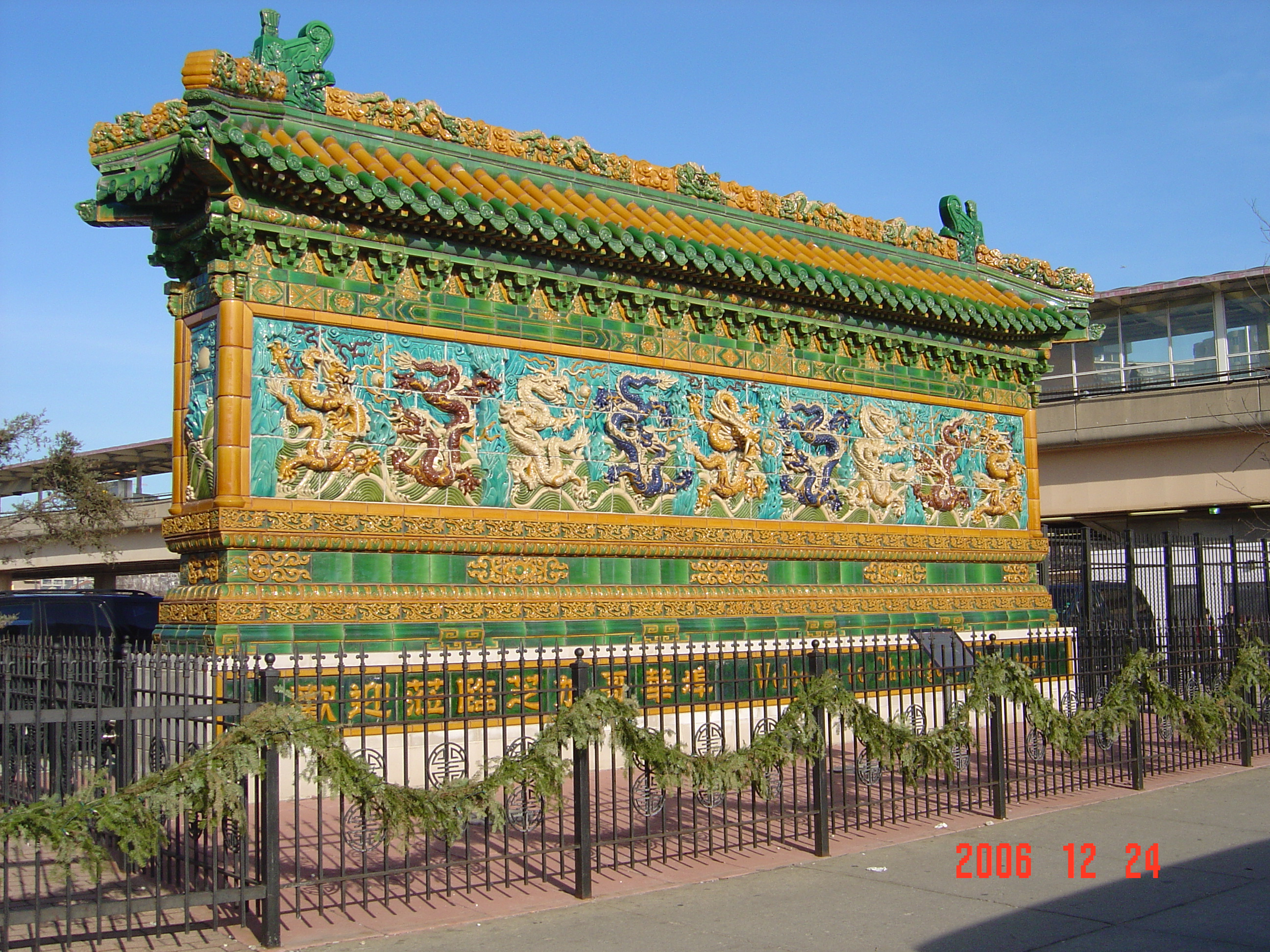 Nine Dragon Wall at Chicago Chinatown Photo taken by Peter M. Ng